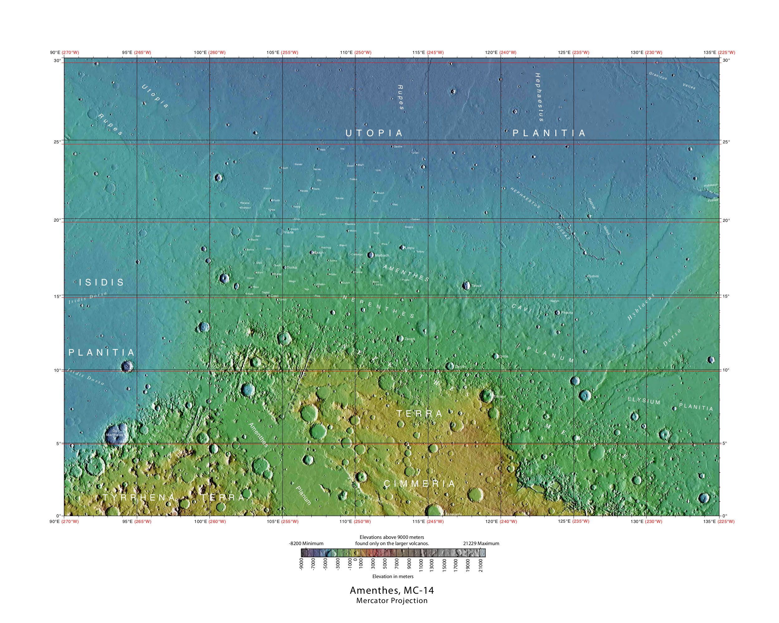 MOLA Topographic Map of Amenthes Quadrangle (MC-14) on the planet Mars. NOTE: Converted the original PDF file to a PNG File (via GIMP v2.8.4 program) - and uploaded to Wikimedia Commons.